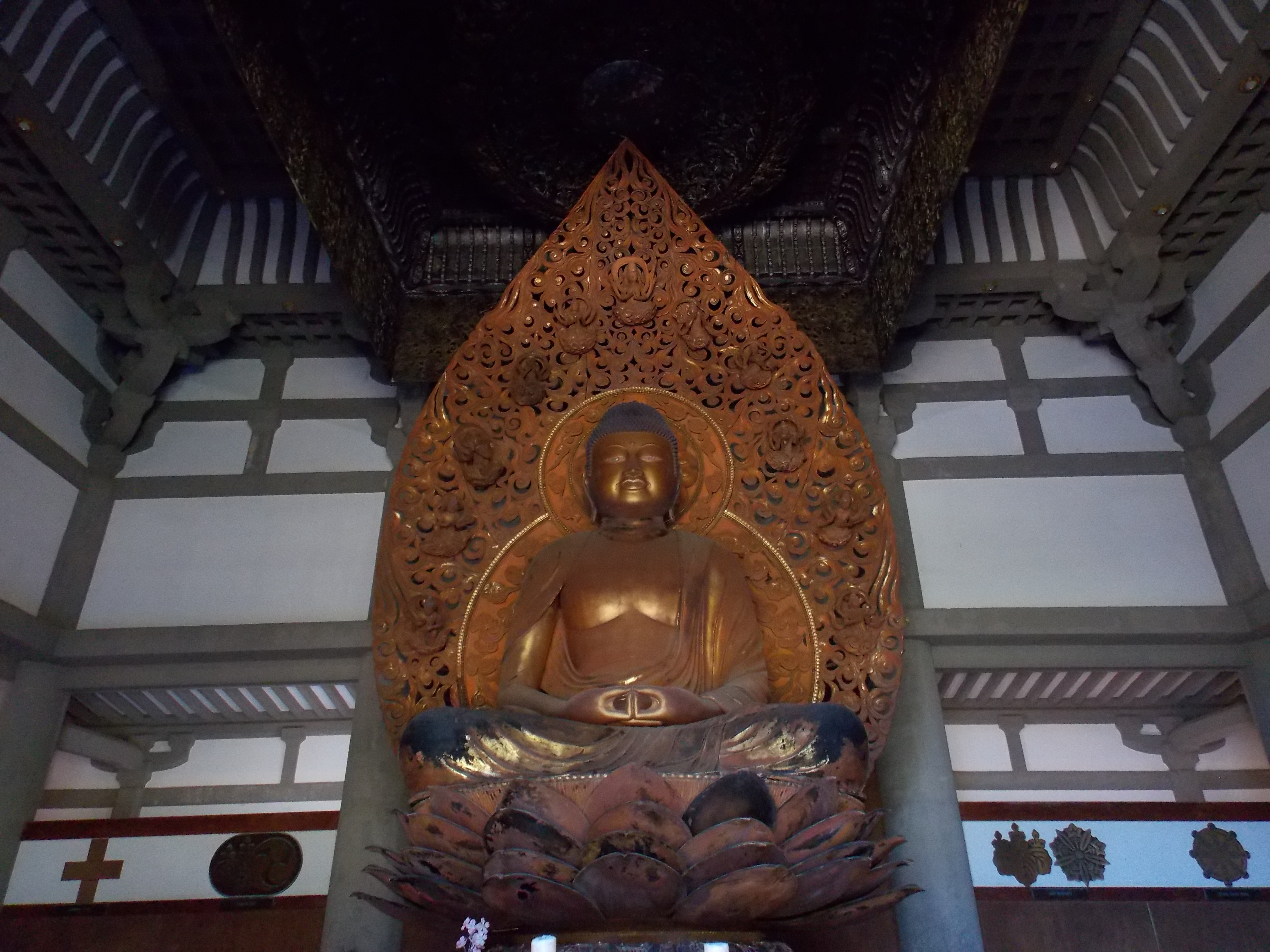 The Amida Buddha in the Byodo-In Temple, a non-denominational Buddhist temple, located at the Valley of the Temples on Oahu,Hawaii.